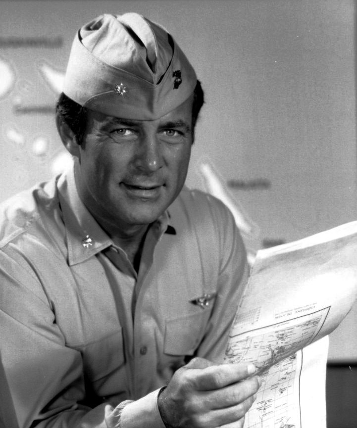 Photo of Robert Conrad as Pappy Boyington from the television program Baa Baa Black Sheep.